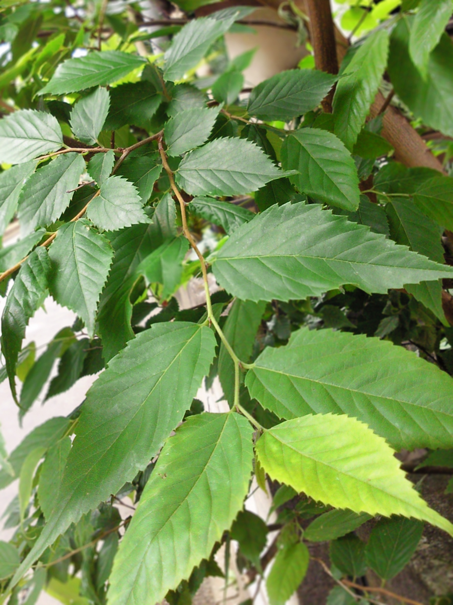 Leaves of Aphananthe aspera, Muku Tree.